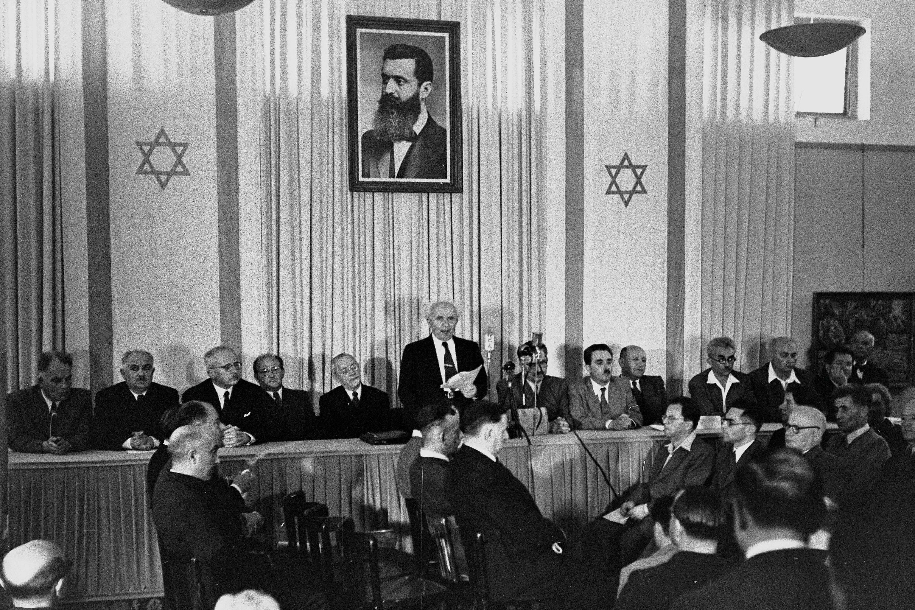 David Ben-Gurion (First Prime Minister of Israel) publicly pronouncing the Declaration of the State of Israel, May 14 1948, Tel Aviv, Israel, beneath a large portrait of Theodor Herzl, founder of modern political Zionism, in the old Tel Aviv Museum of Art building on Rothshild St. The exhibit hall and the scroll, which was not yet finished, were prepared by Otte Wallish.